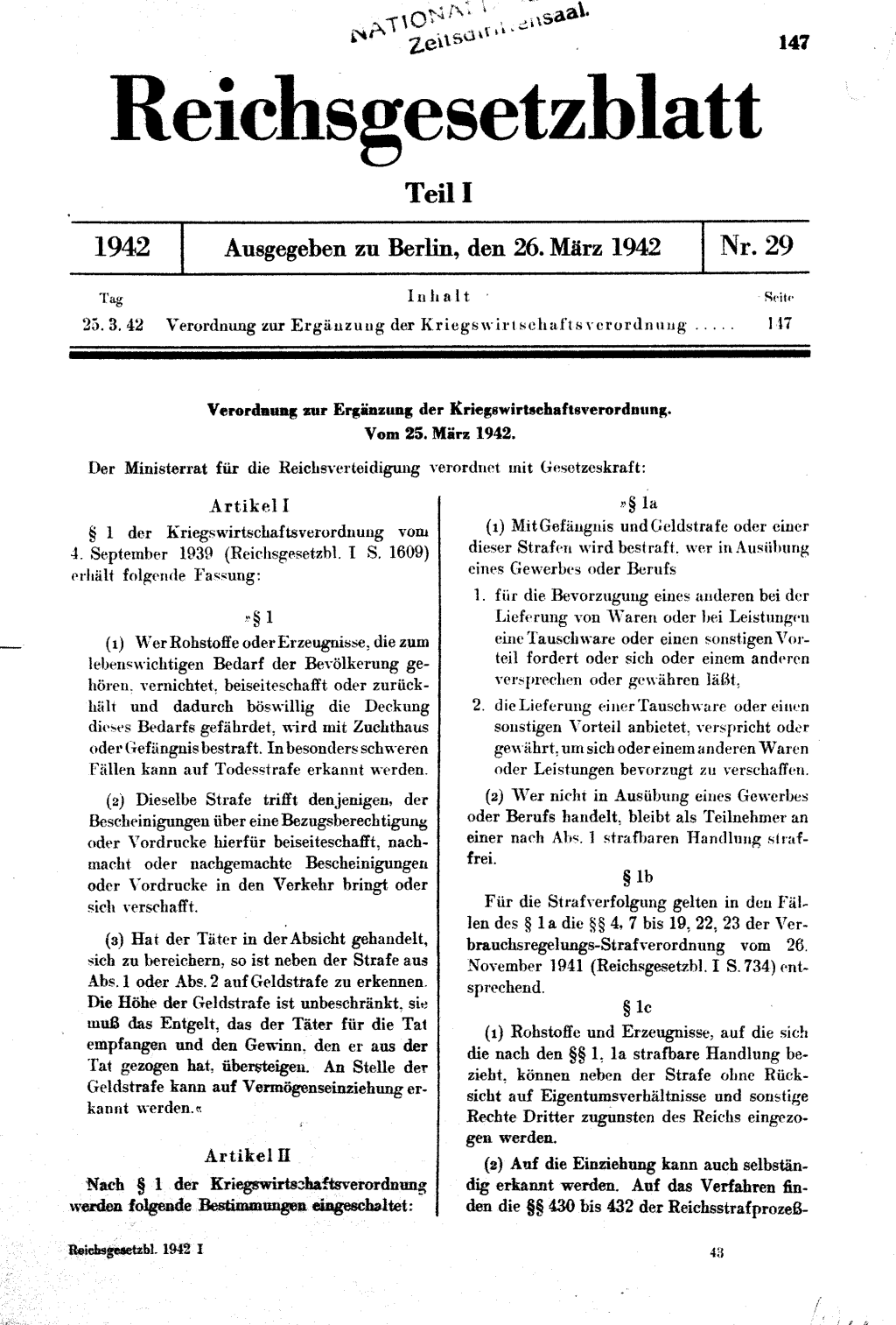 Rules amending the War Trade Regulations (Reich Law Journal 1942 I 147).